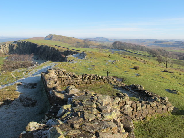 Turret 45a (Walltown) and Hadrian's Wall west of Walltown Farm